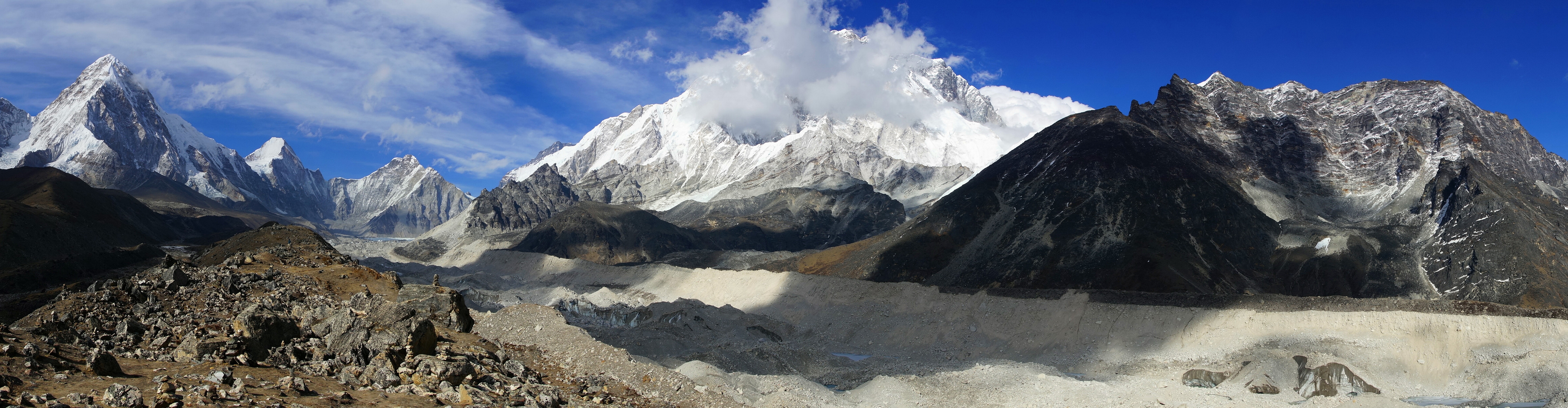 Khumbu Glacier, viewed from Lobuche.